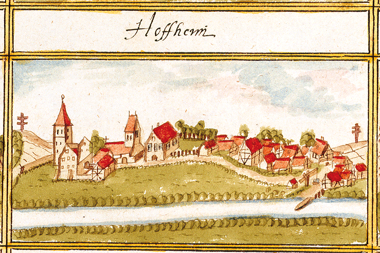 View of Hofen, Mühlhausen, from the forest register books created by Andreas Kieser